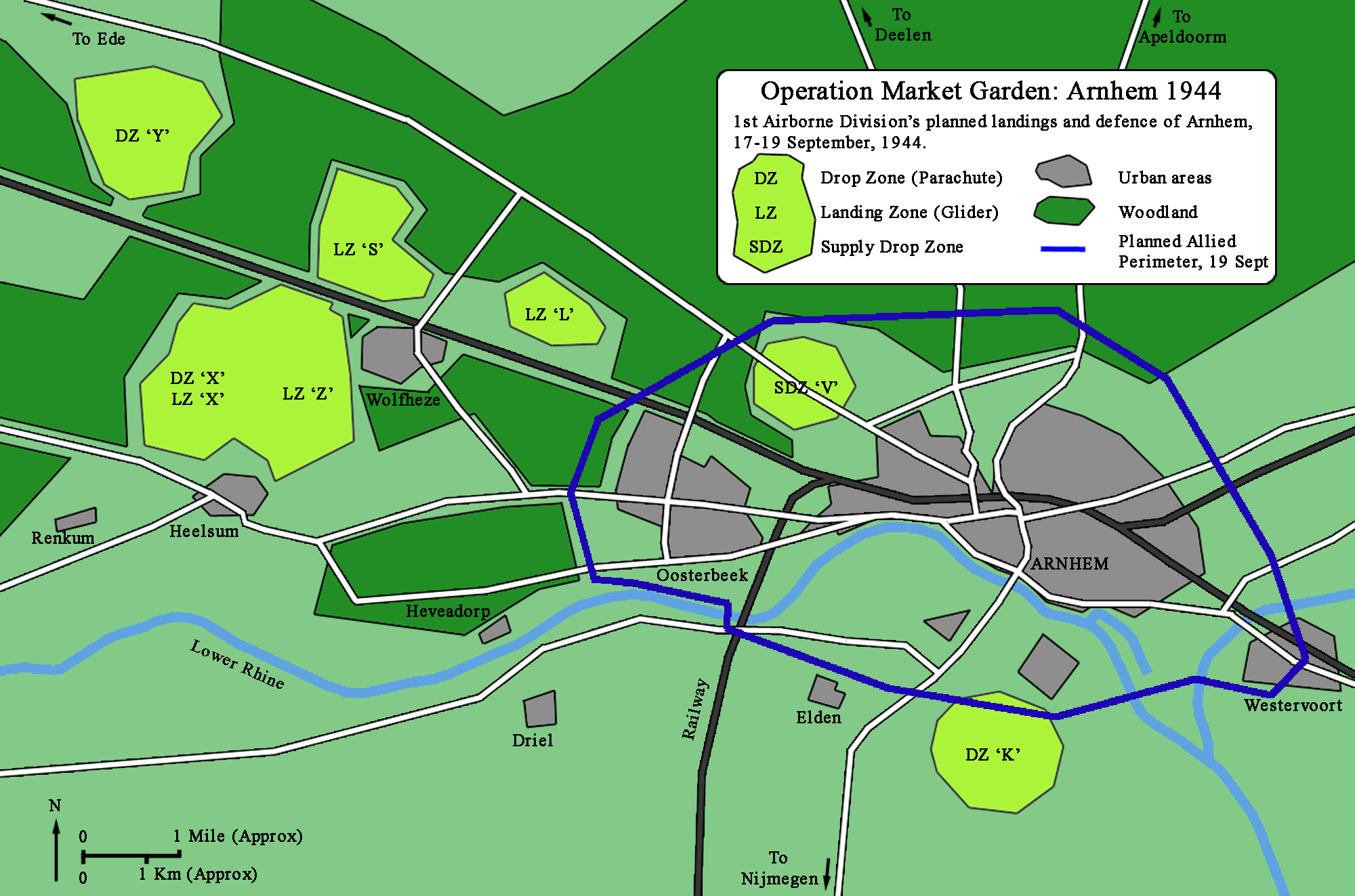 Map of 1st Airborne Division's planned occupation of Arnhem during Operation Market Garden.